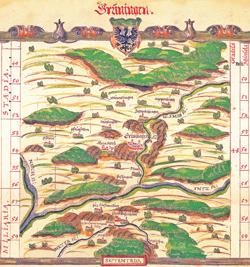 District map of „Amt Grüningen“ (today Markgröningen) with „Amtsflecken“ (villages) Pflugfelden, Münchingen, Schwiebertingen, Nippenburg, Oßweil, Pflugfelden, Möglingen, Schloß und Dorf Asperg (Hohen- und Unterasperg), Thamm, Bissingen, Saßenheim underm Berg (Untermberg), Zur Eyssern Burg (Egartenhof), Großsaßenheim, Kleinsaßenheim, Zimbern (Metterzimmern) and Sarissen (Sersheim). fol. XI of Atlas des Herzogtums Württemberg